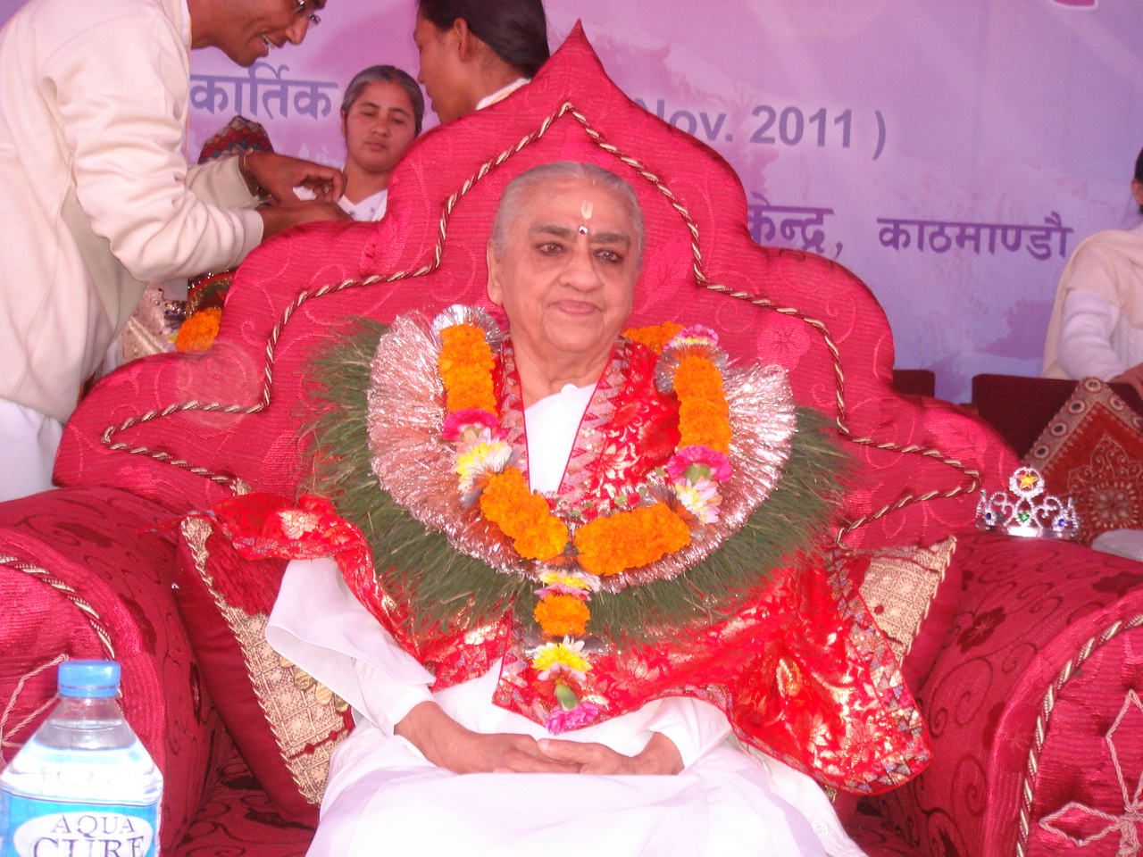 Braham Kumari Dadi Guljar at Pasupathinath Temple in Kathmandu